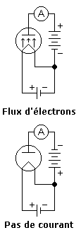 The Edison effect.